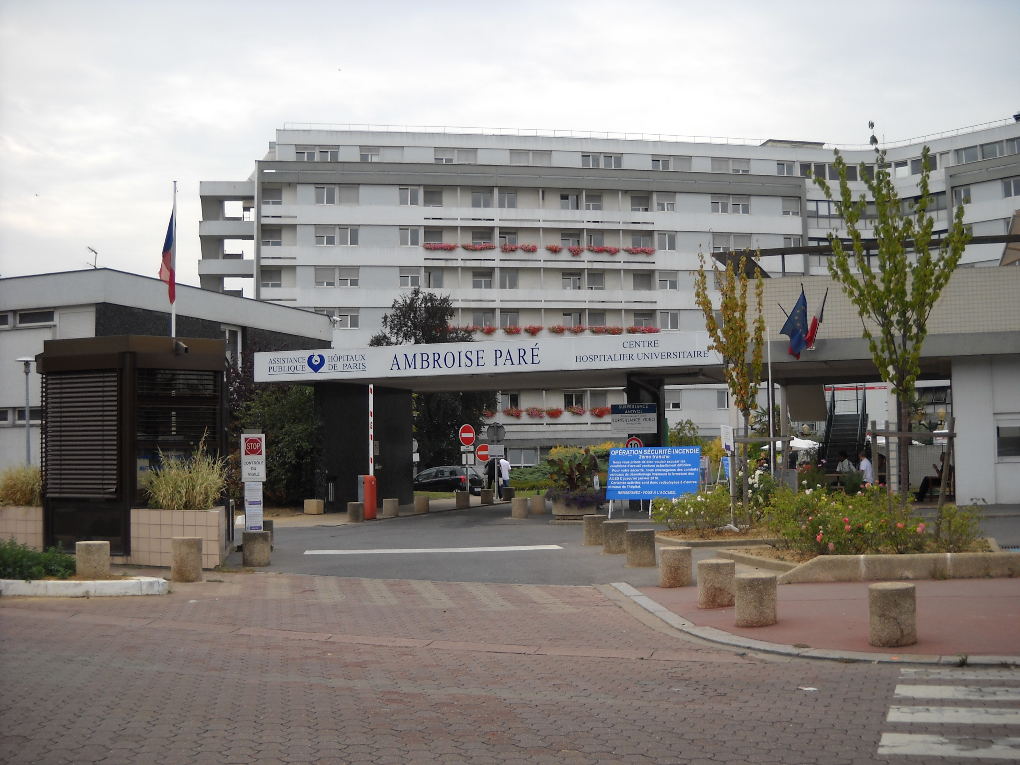 Ambroise Paré hospital, in Boulogne-Billancourt, Hauts-de-Seine, France.